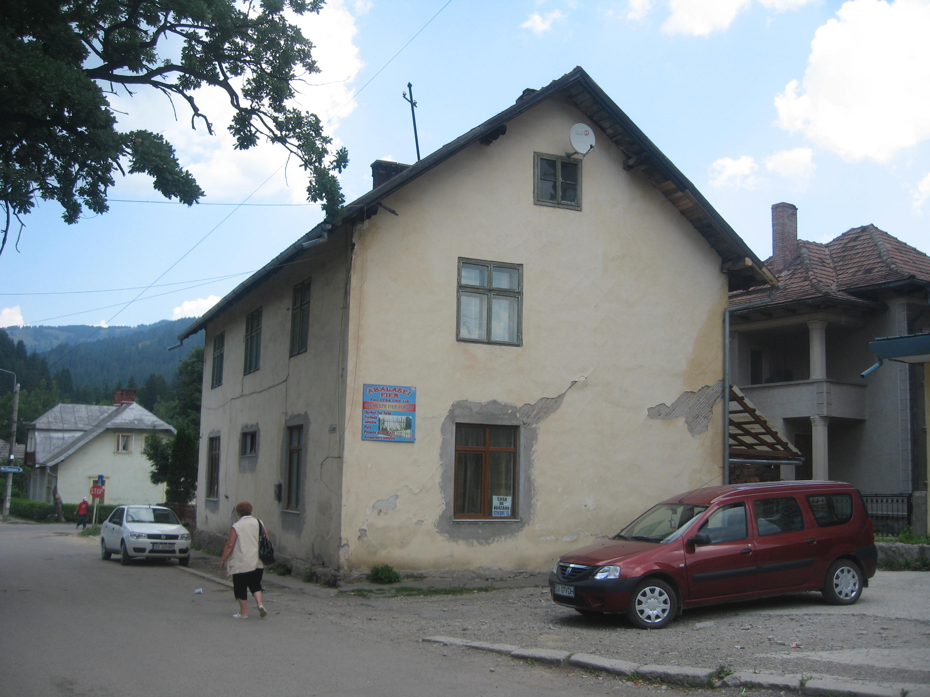 The old syngaogue in Câmpulung Moldovenesc, Romania